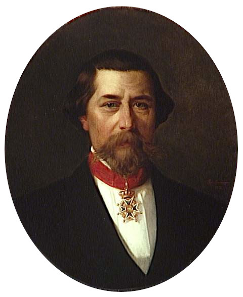 Portrait of Pierre-Paul Pecquet du Bellet (1816–1884), an unofficial diplomatic agent of the Confederate States of America to France. Bellet is featured wearing the medal of a commander of the Order of Christ (Portugal).